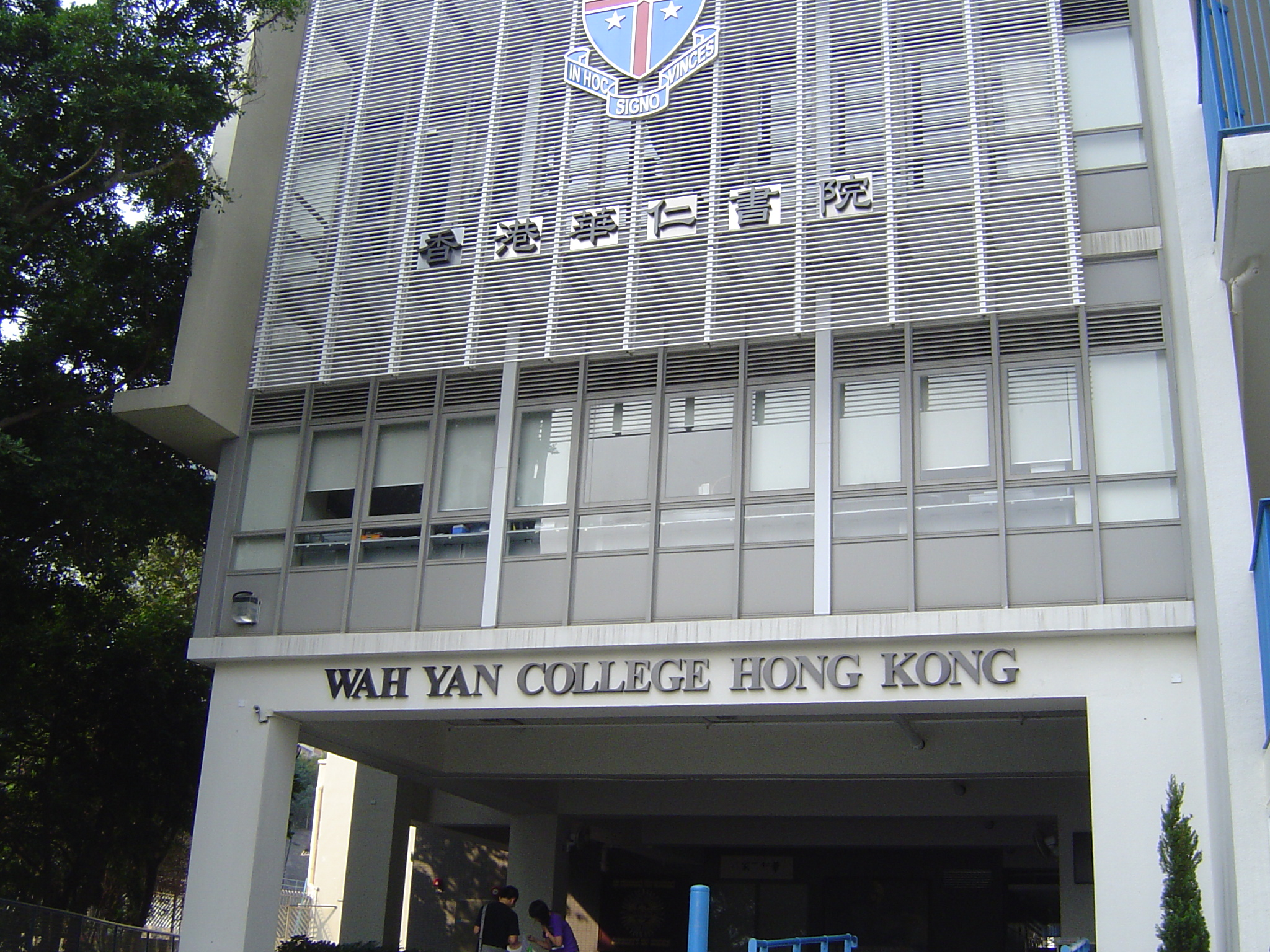 New Annex of Wah Yan College, Hong Kong